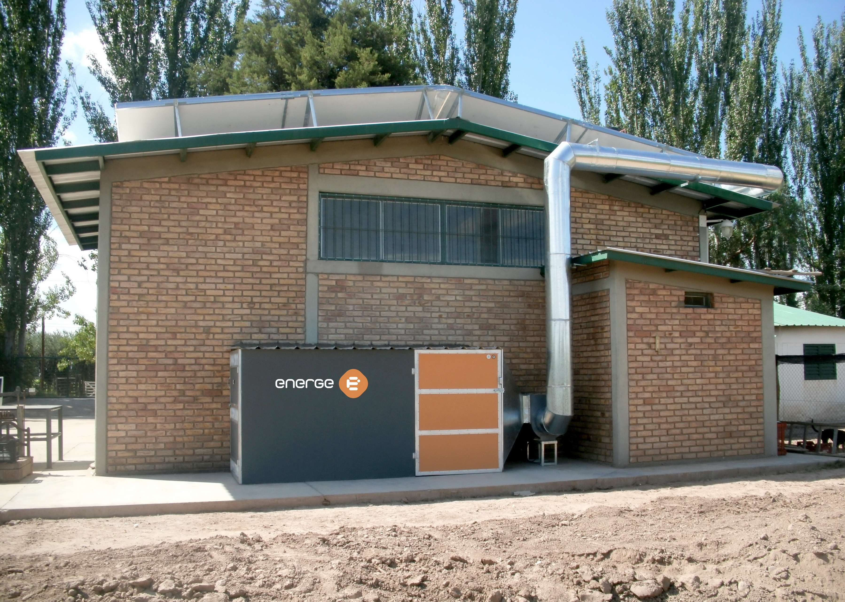 Industrial indirect solar fruit and vegetable dryer